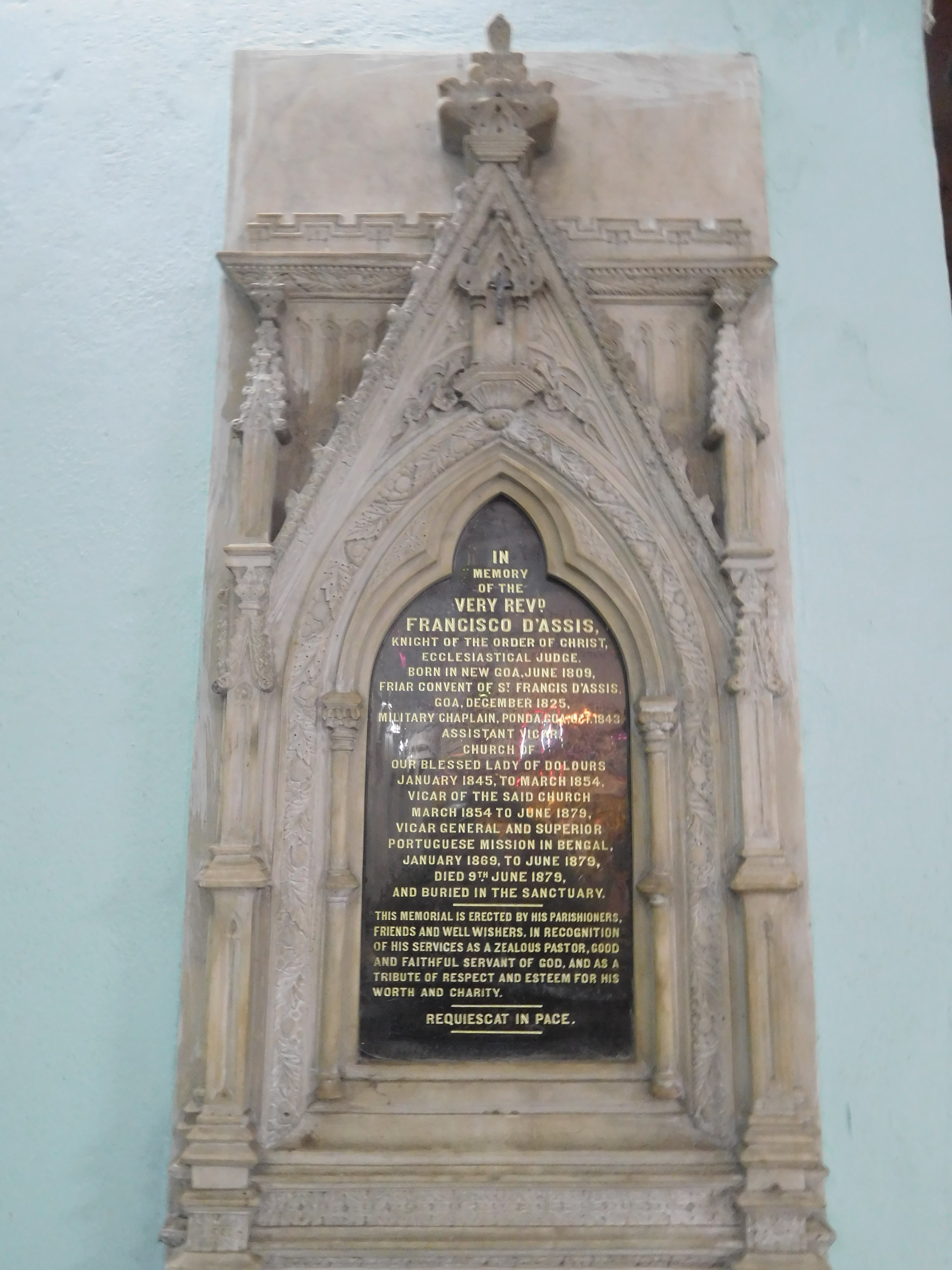 The memorial tablet of Father Francisco d'Assis in the 'Our Lady of Dolours' Church, Calcutta